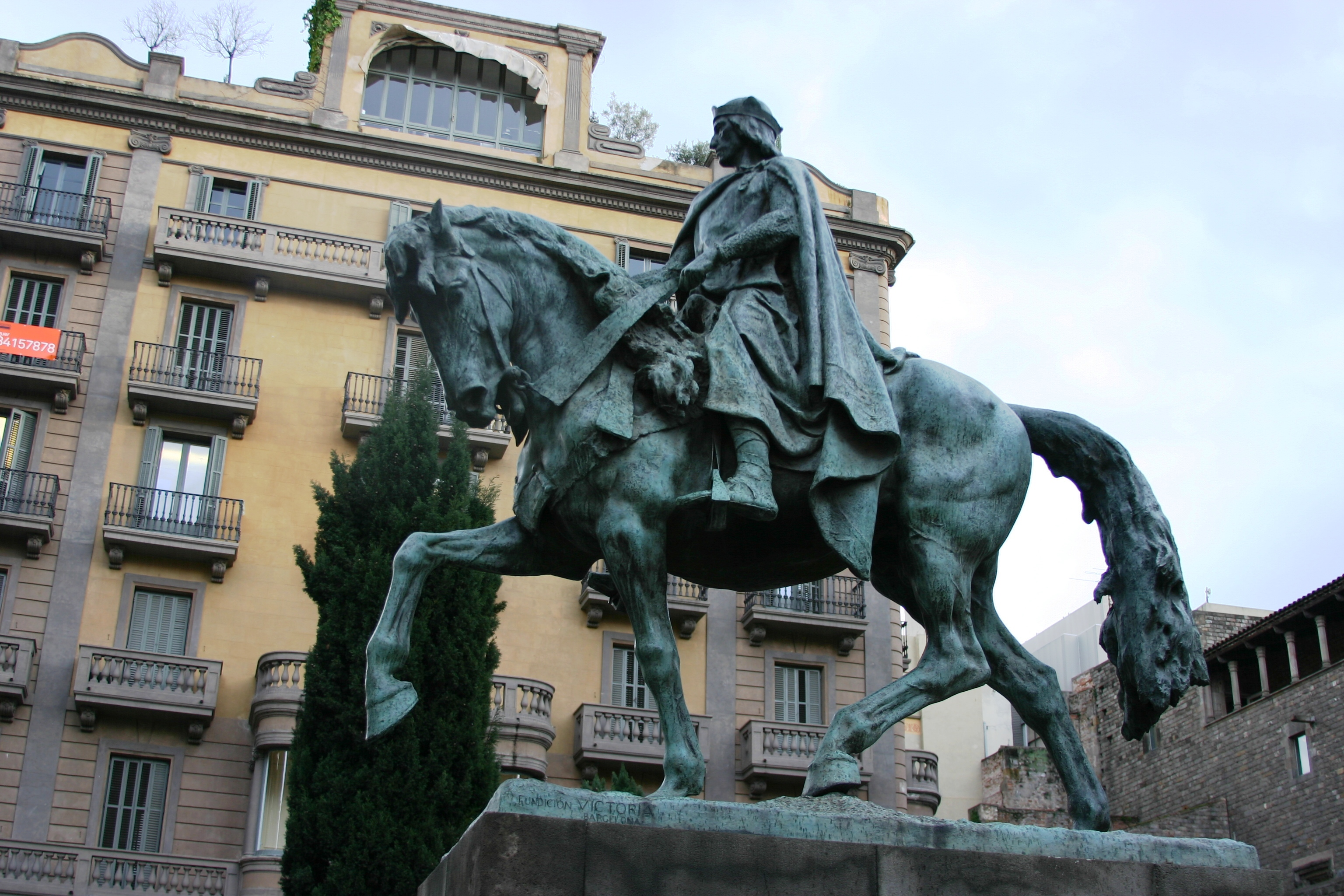 Ramon Berenguer III's statue